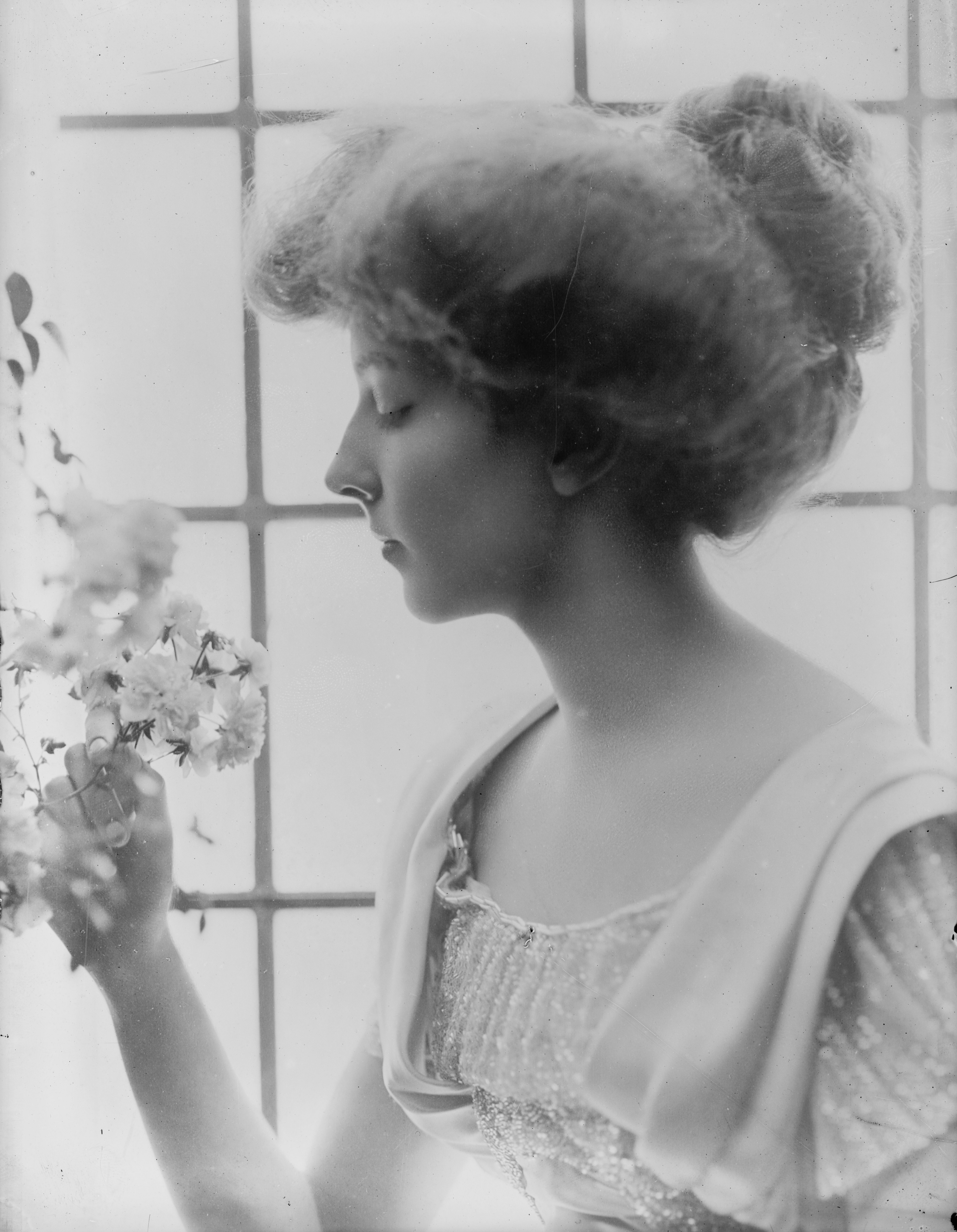 Anita Stewart, Princess of Braganza